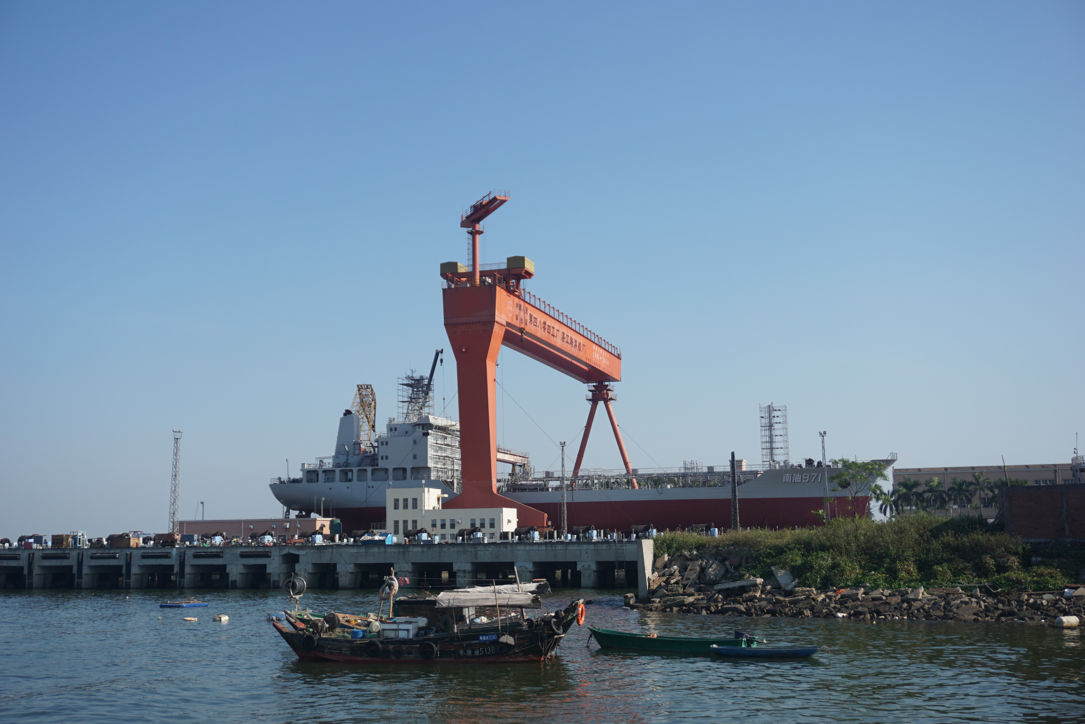 A vessel in a dock with a crane in Zhanjiang, Guangdong Province